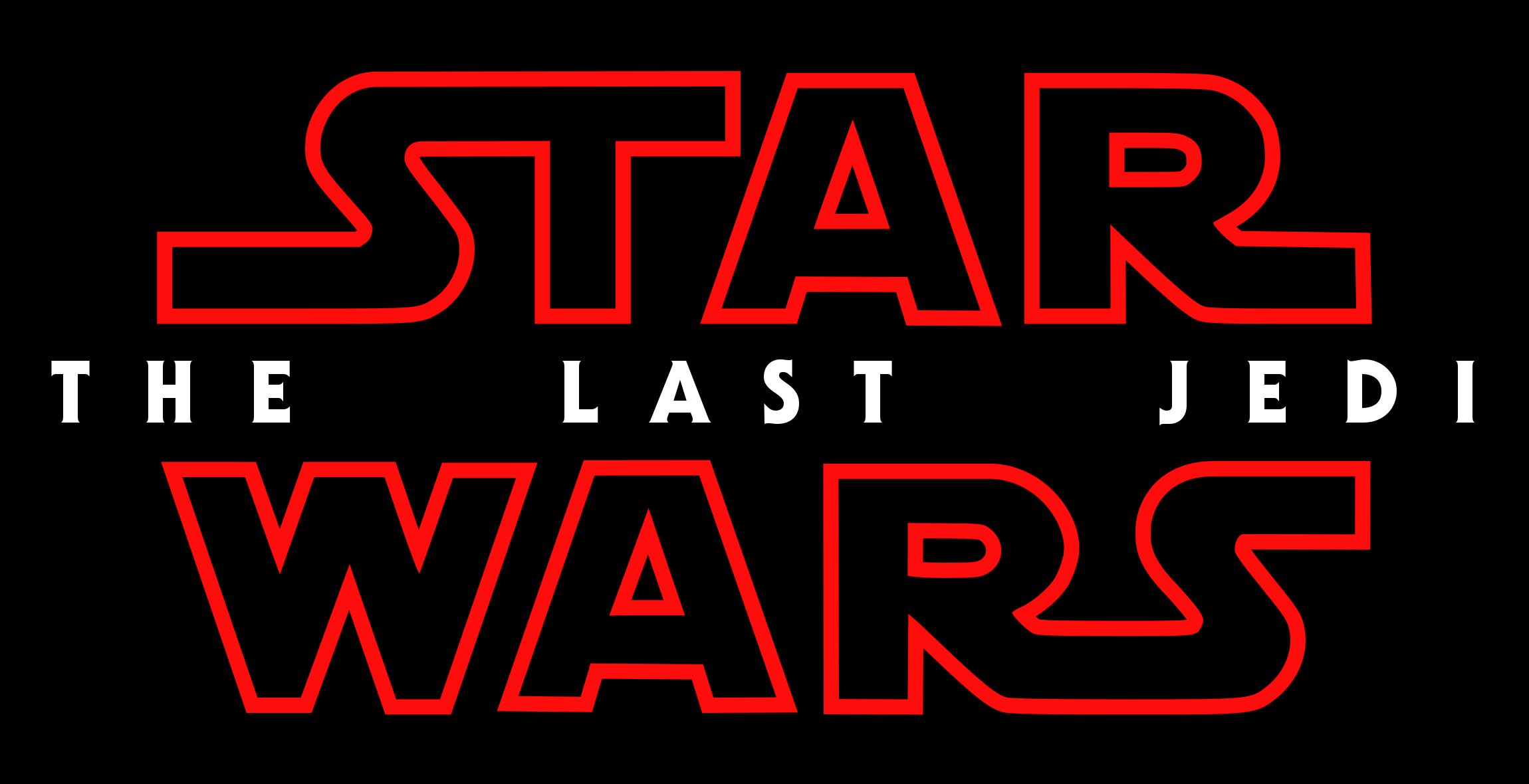 Logo of Star Wars: Episode VIII – The Last Jedi